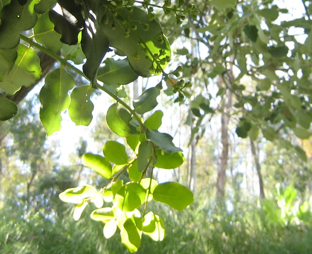 Beilschmiedia miersii, detail of a flowered branch. Central Chile, shadowed places.